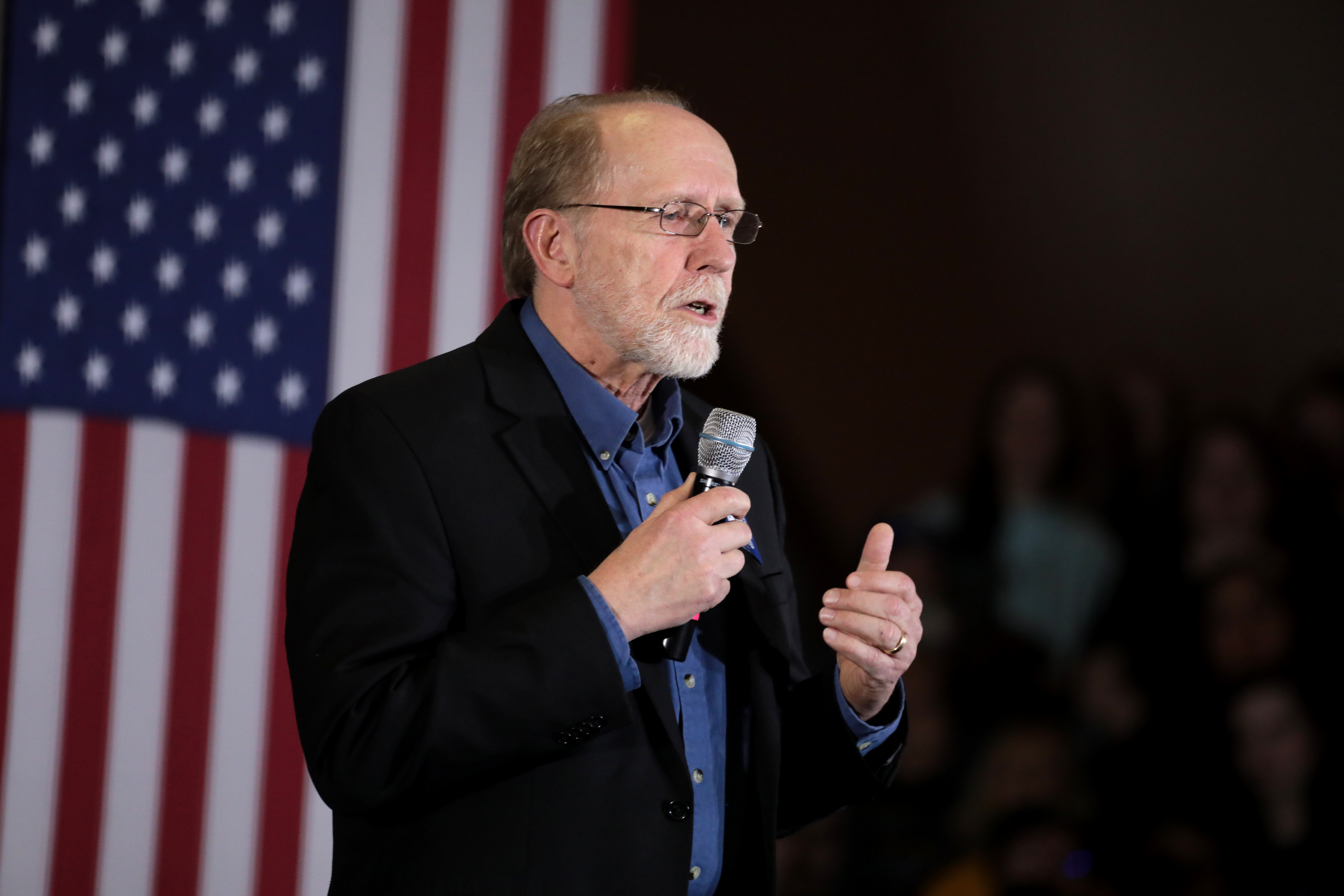 U.S. Congressman David Loebsack speaking with supporters of Mayor Pete Buttigieg at a town hall at the State Historical Museum in Des Moines, Iowa.